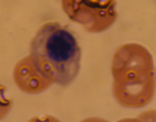 Orthochromatic normoblast from a Bone marrow examination (40x).